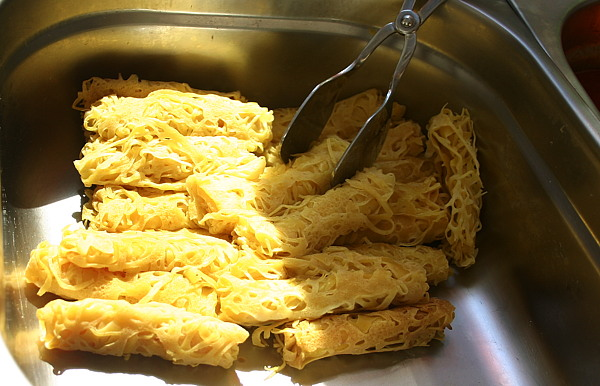 Malayan Roti Jala